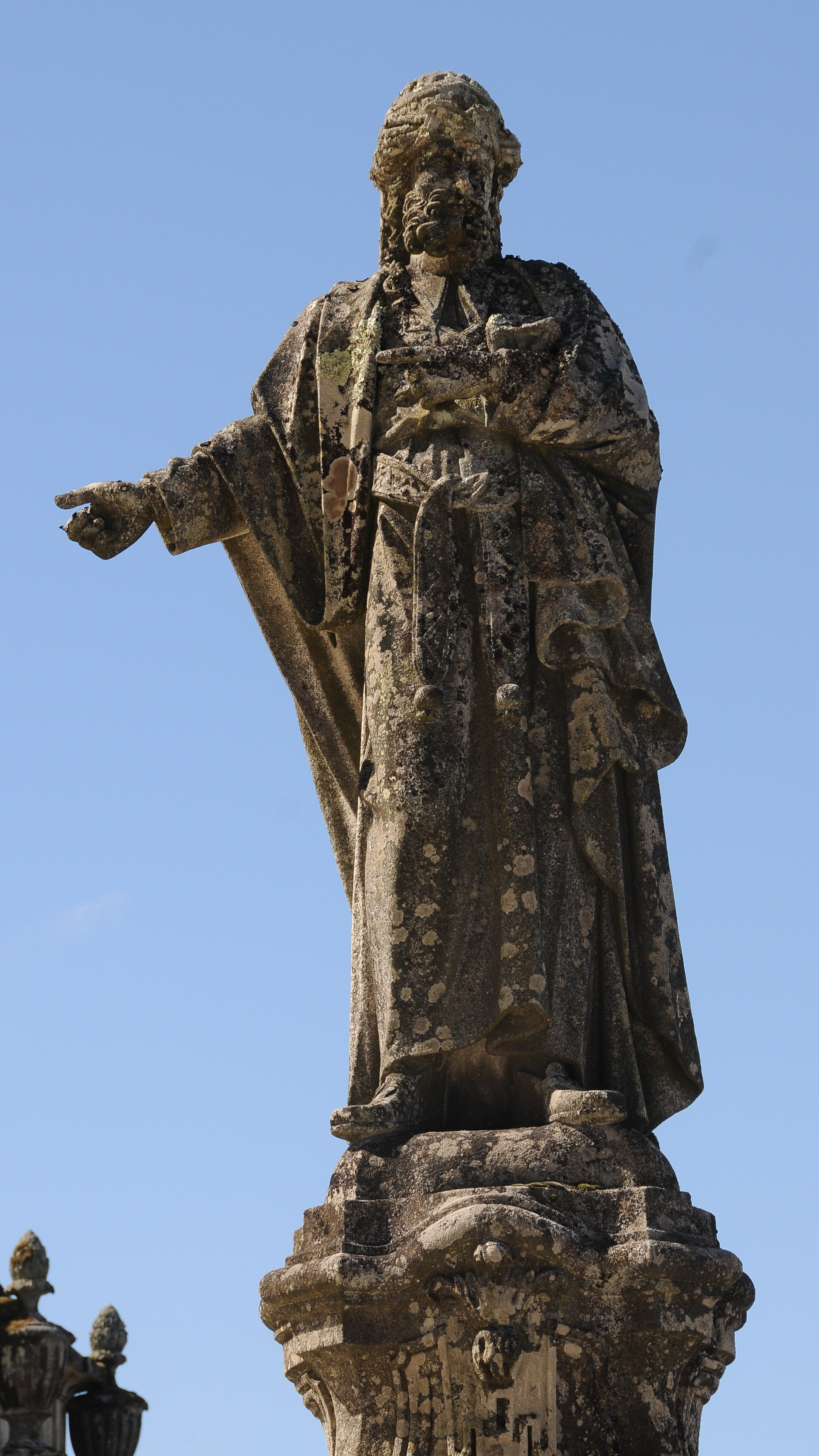 Statue of Annaz in Bom Jesus, Braga, Portugal